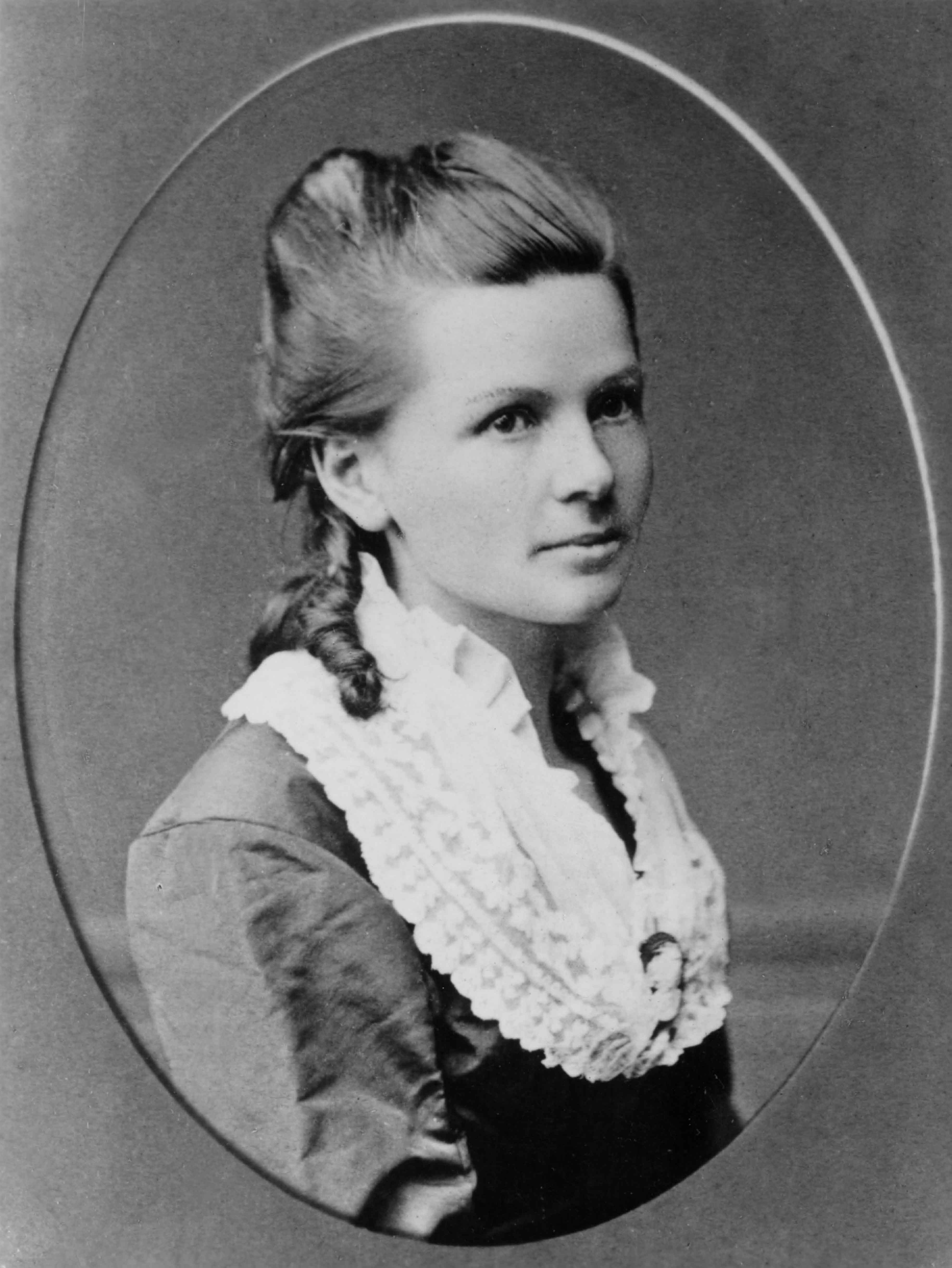 This picture shows Bertha Benz around 1870.